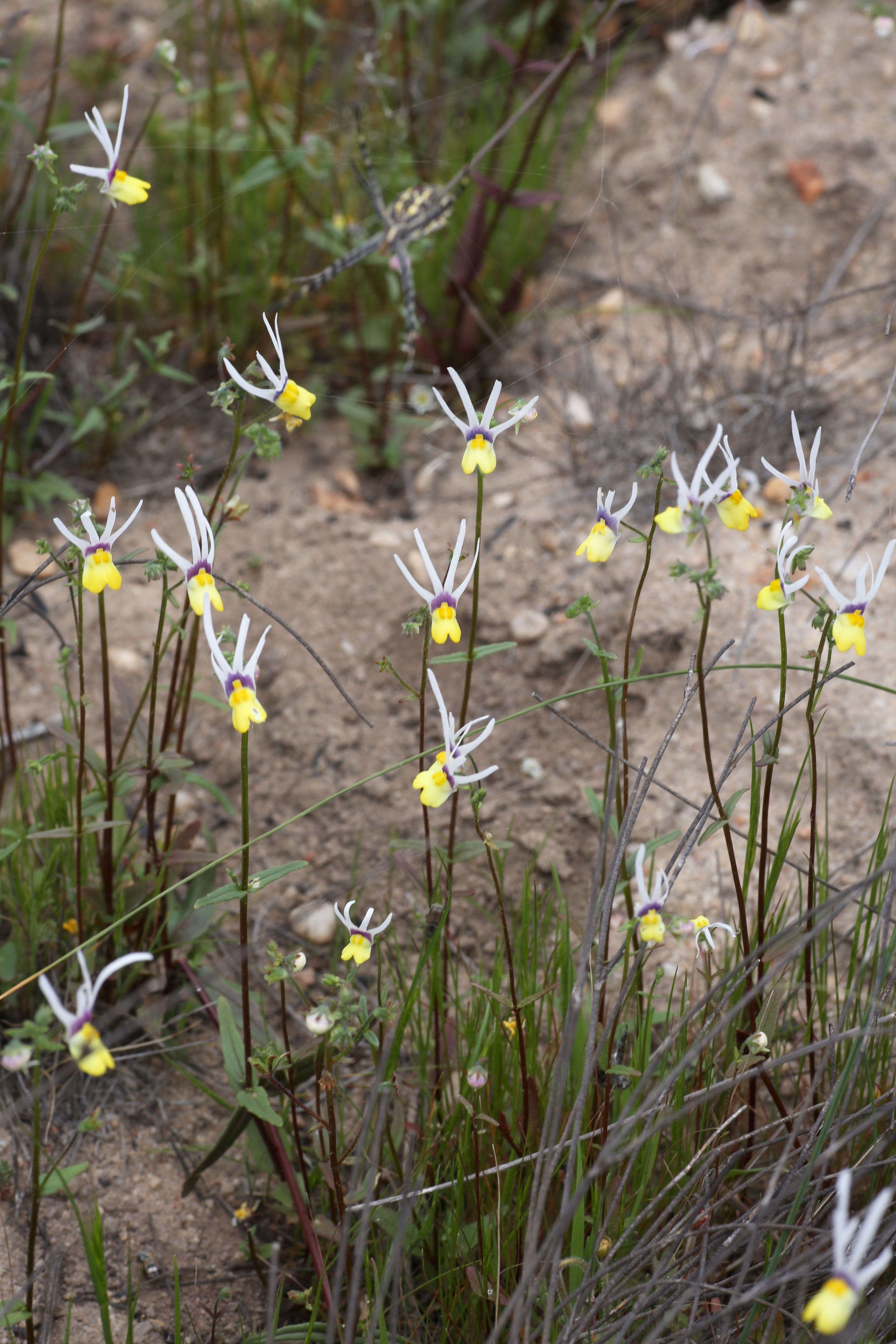 Along the R27 towards Oorlogskloof Nature Reserve, Nieuwoudtville, Northern Cape, South Africa